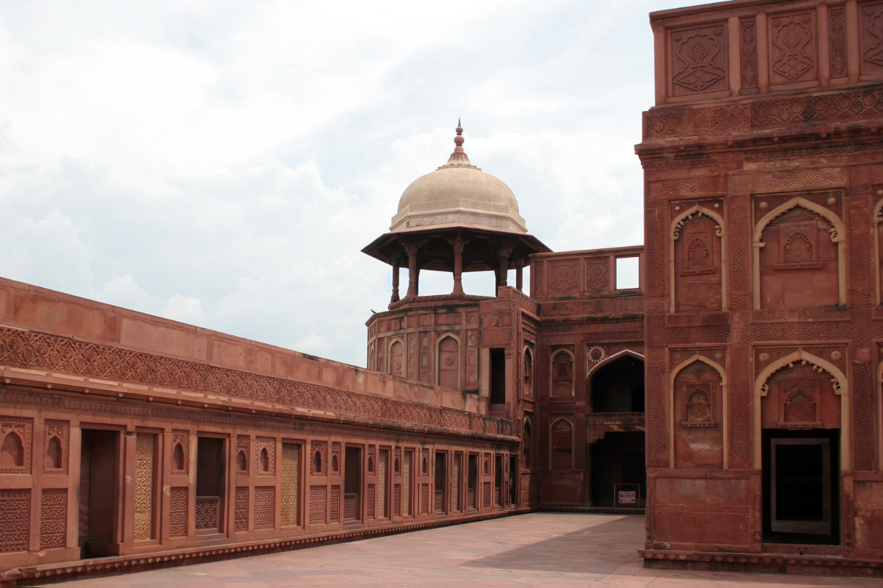 A watchtower at Agra Fort